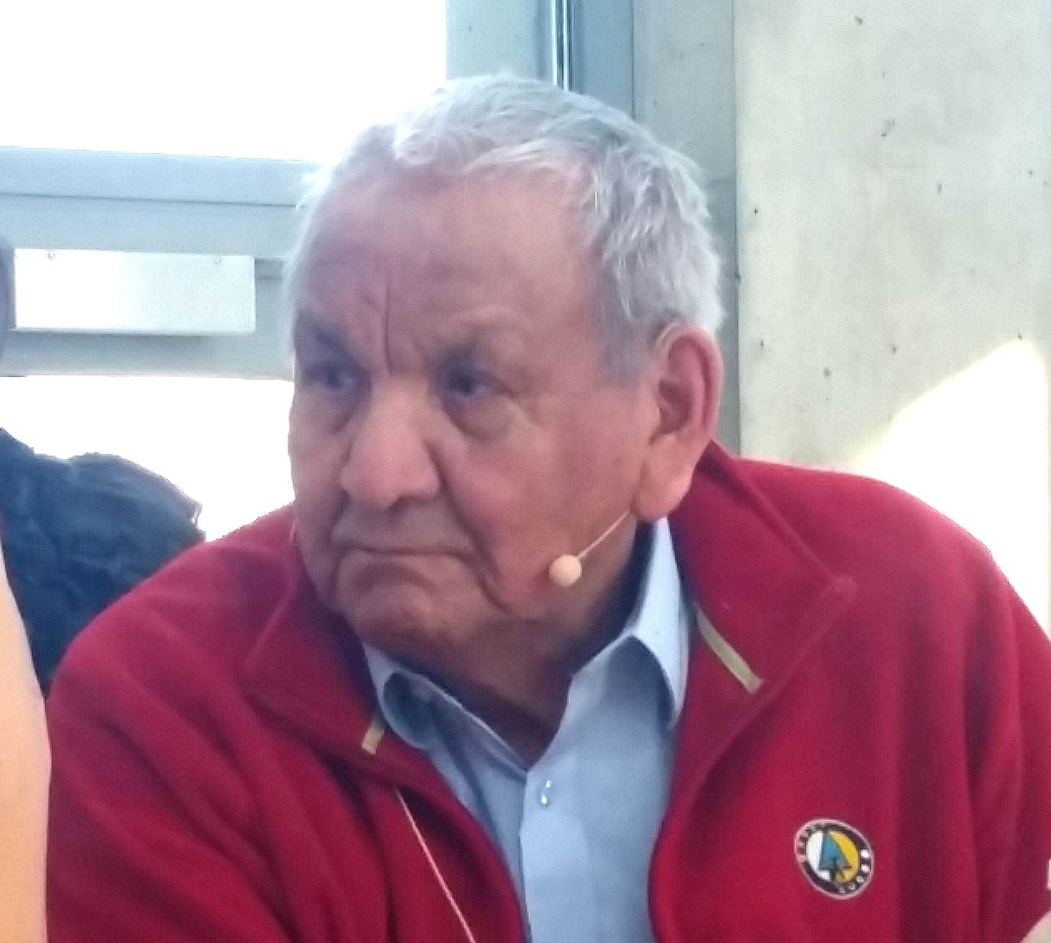 Alex Janvier at the National Gallery of Canada for his major retrospective exhibition, March 2017